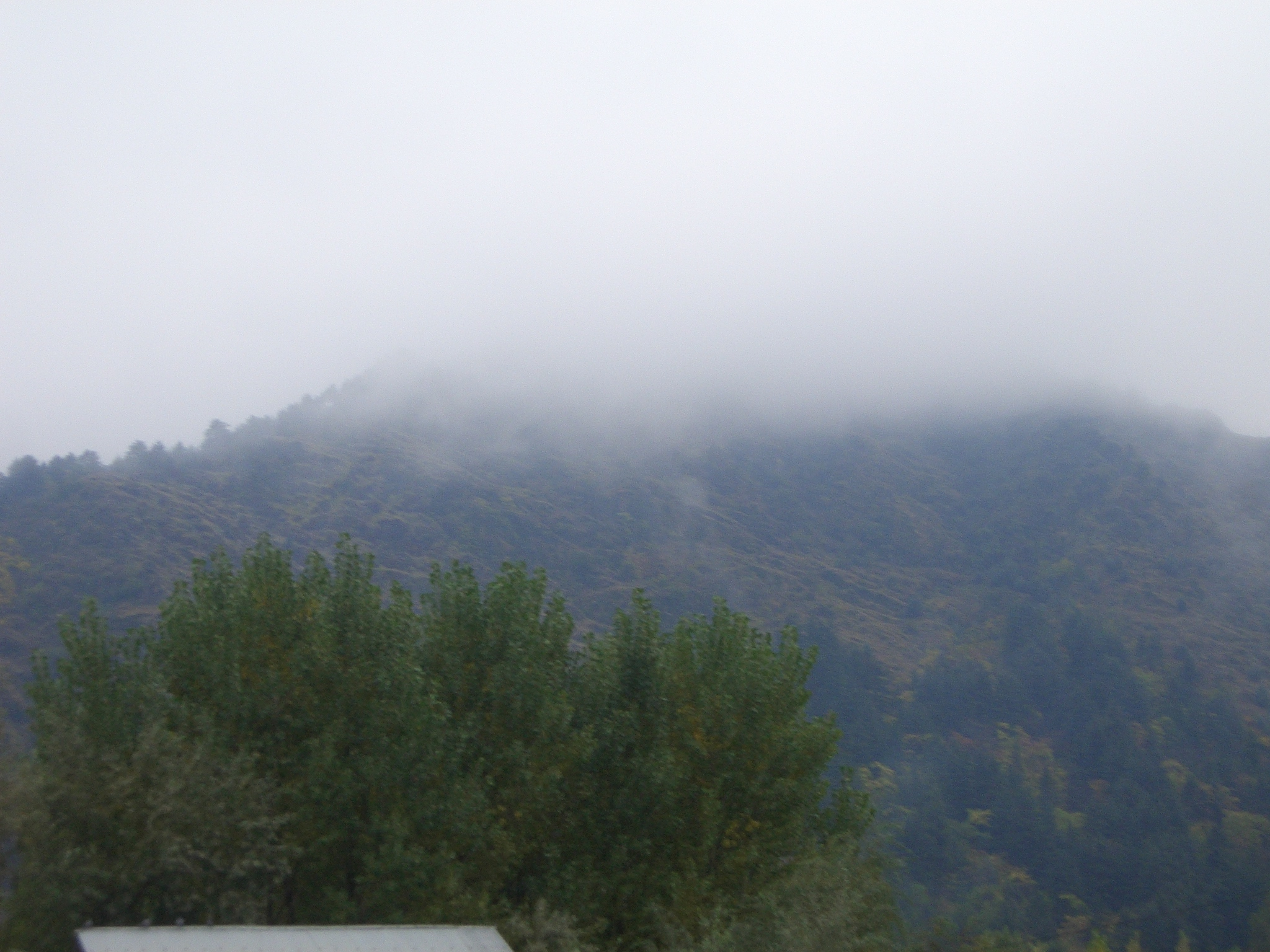 Himalayas